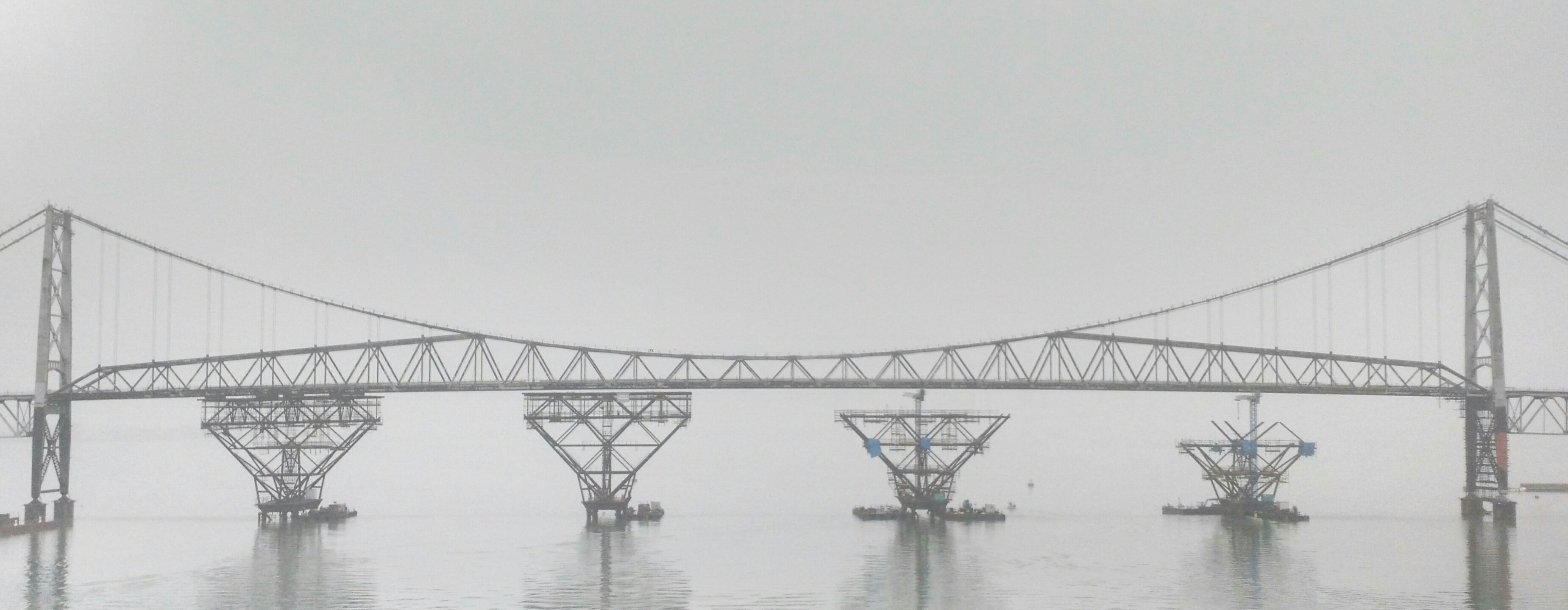 Hercílio Luz Bridge, under restoration, on a rare foggy day, Santa Catarina Island, city of Florianópolis.